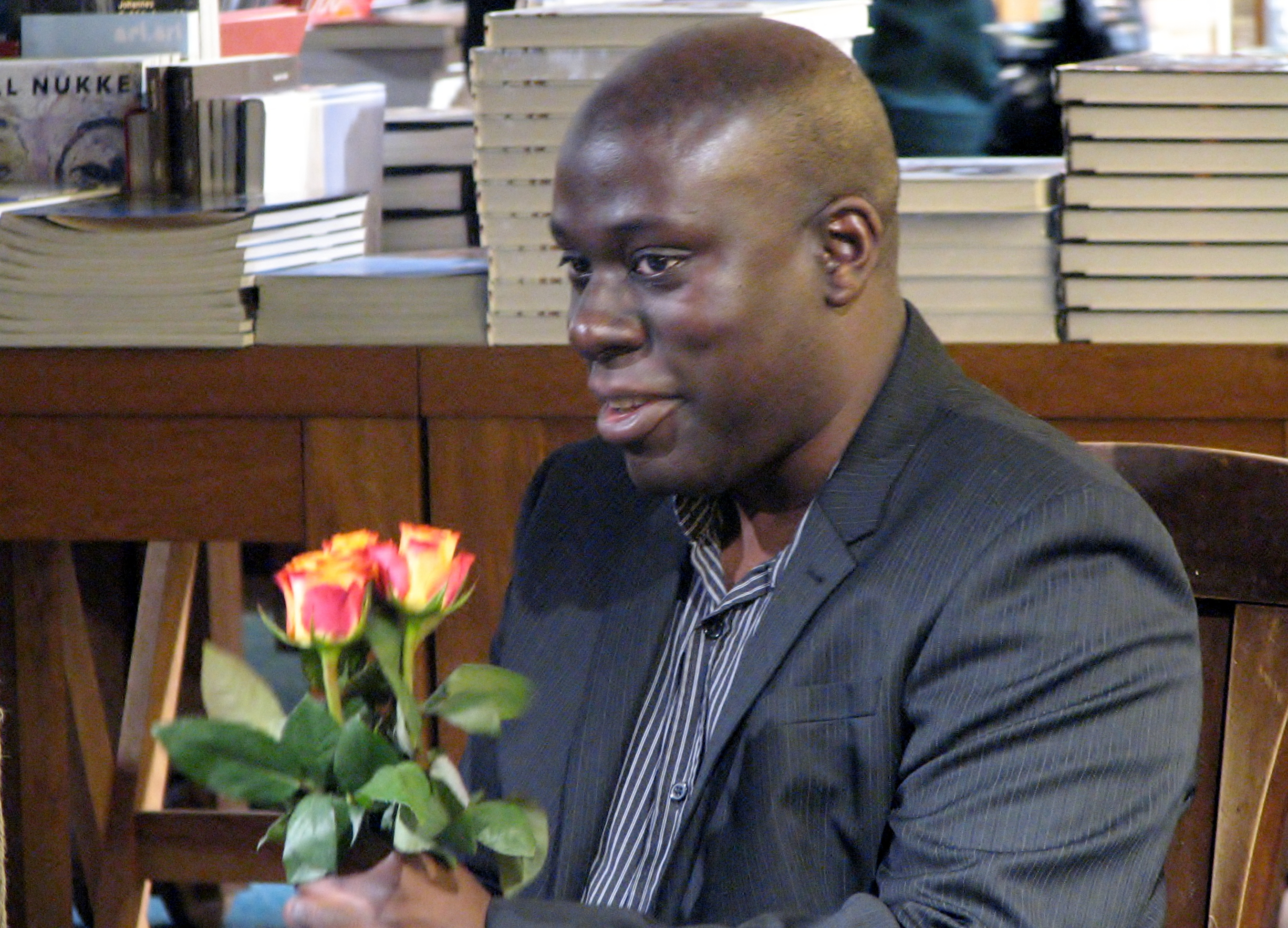 Abdul Turay presenting his book "Little white country"